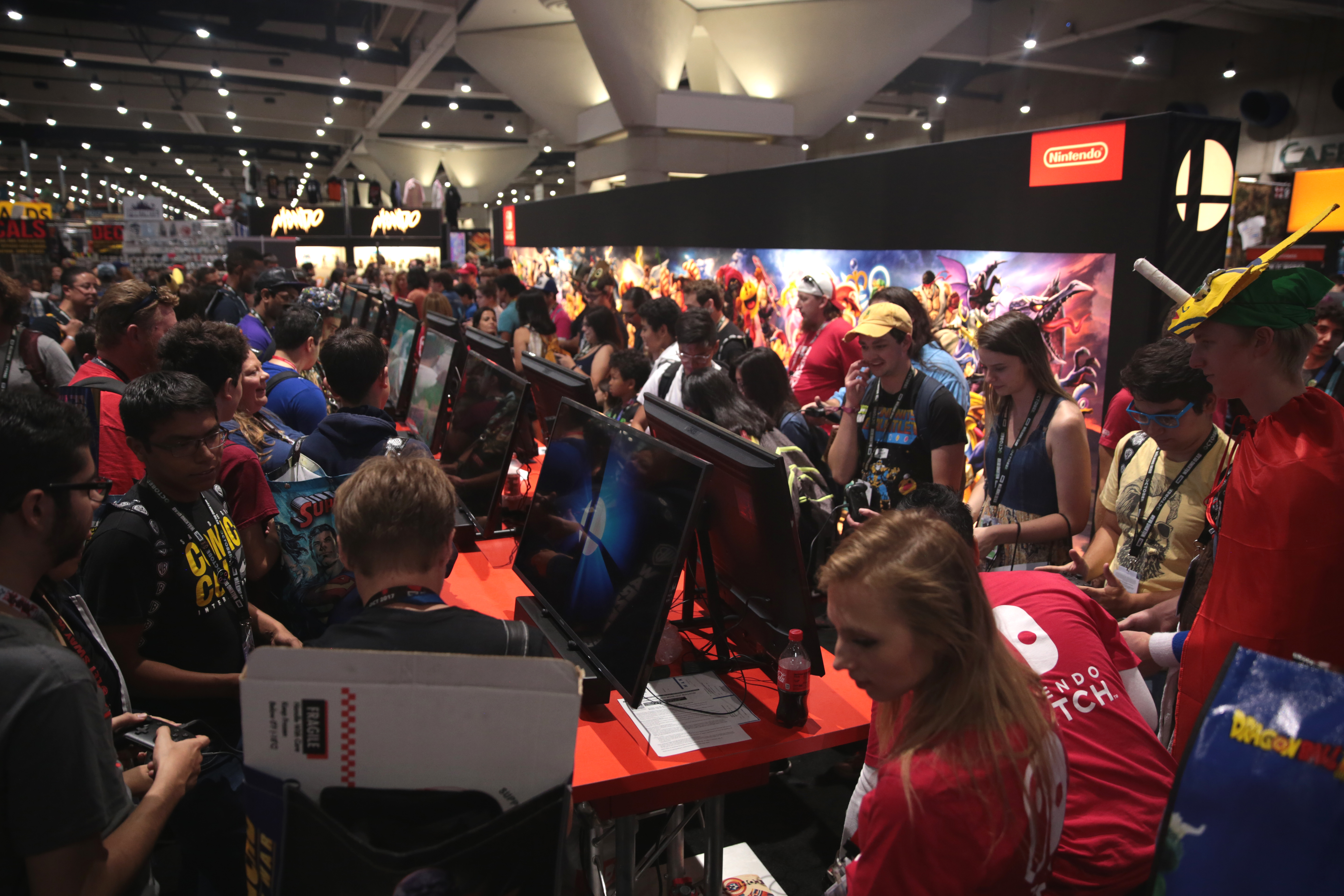 Nintendo booth at the 2018 San Diego Comic-Con International at the San Diego Convention Center in San Diego, California.